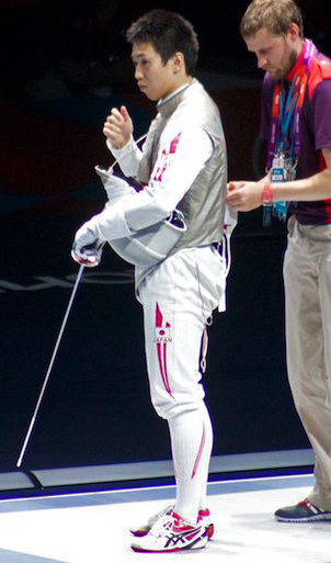 Suguru Awaji at the 2012 Summer Olympics.